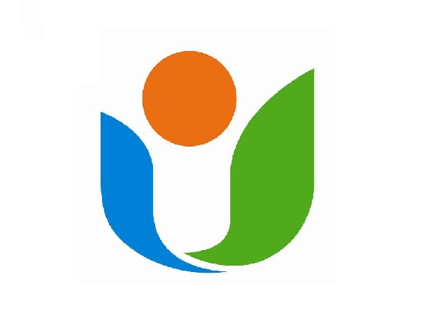 Flag of Uki Kumamoto